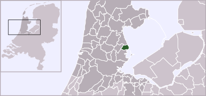 Municipality of Edam-Volendam, 2012 municipality borders